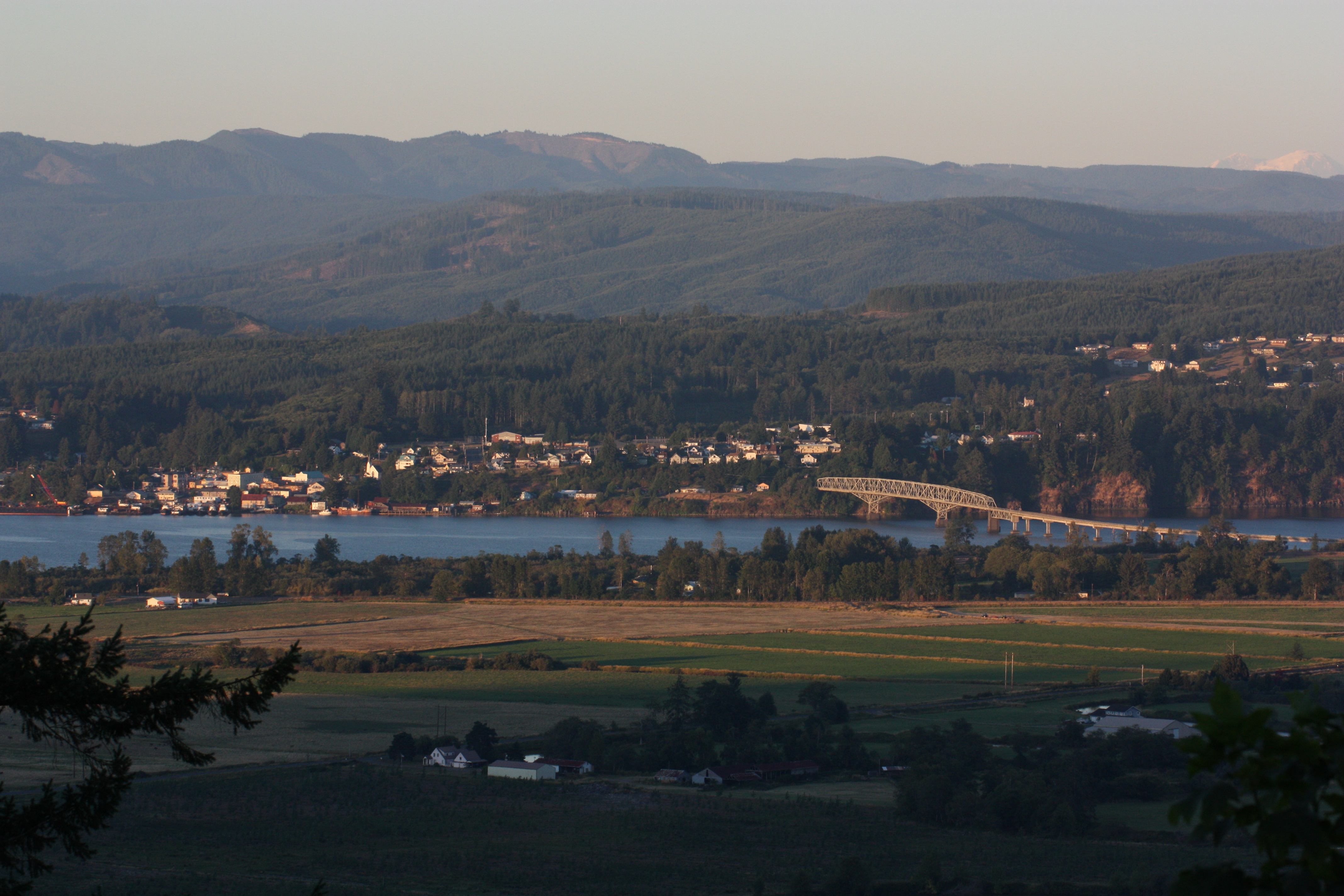 Julia Butler Hansen Bridge across Cathlamet Channel connecting Cathlamet, Washington to Puget Island (foreground)